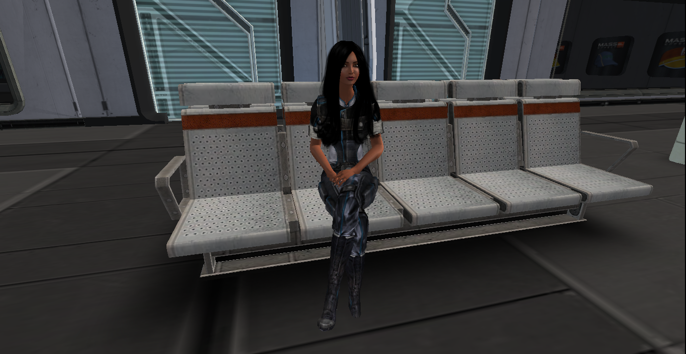 This is a human female avatar in a Mass Effect sim in Second Life. Photographed 1 May, 2013.